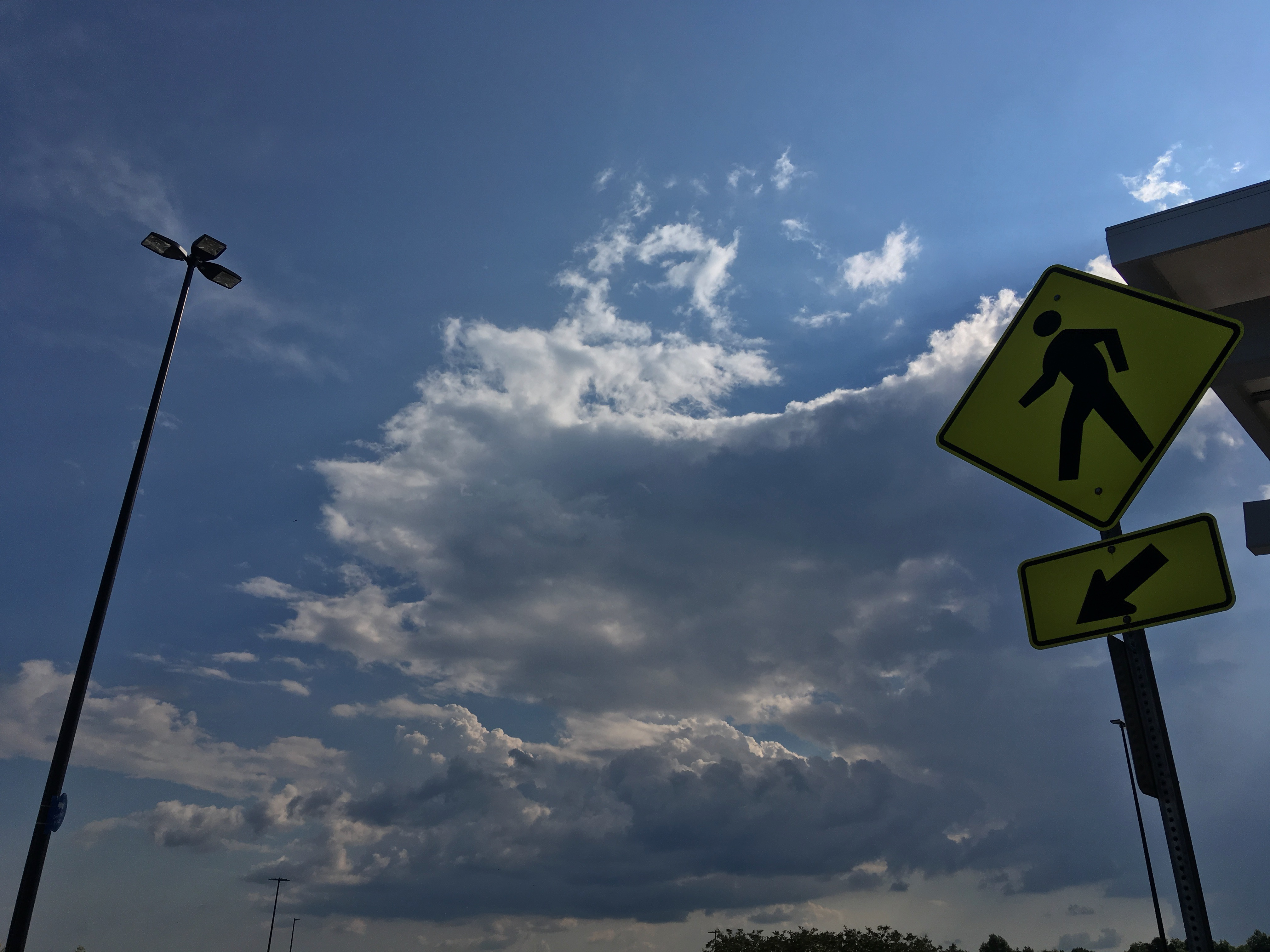 A pedestrian crossing sign in the United States.